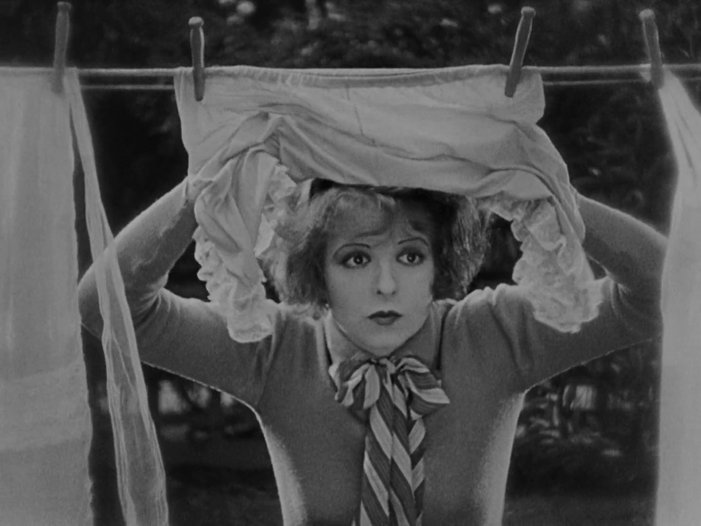 Cropped screenshot of Clara Bow from the film Wings